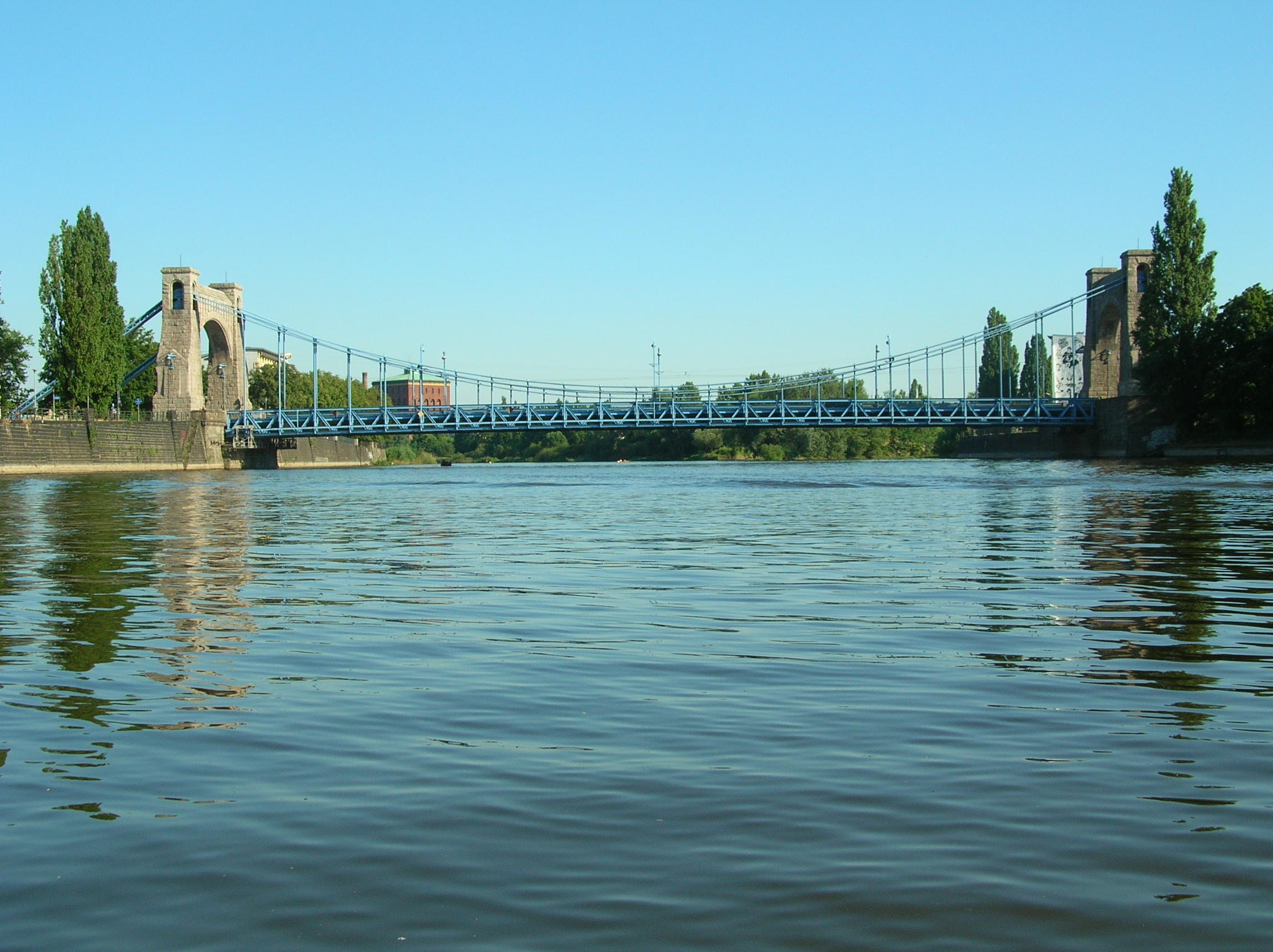 Grunwaldzki Bridge